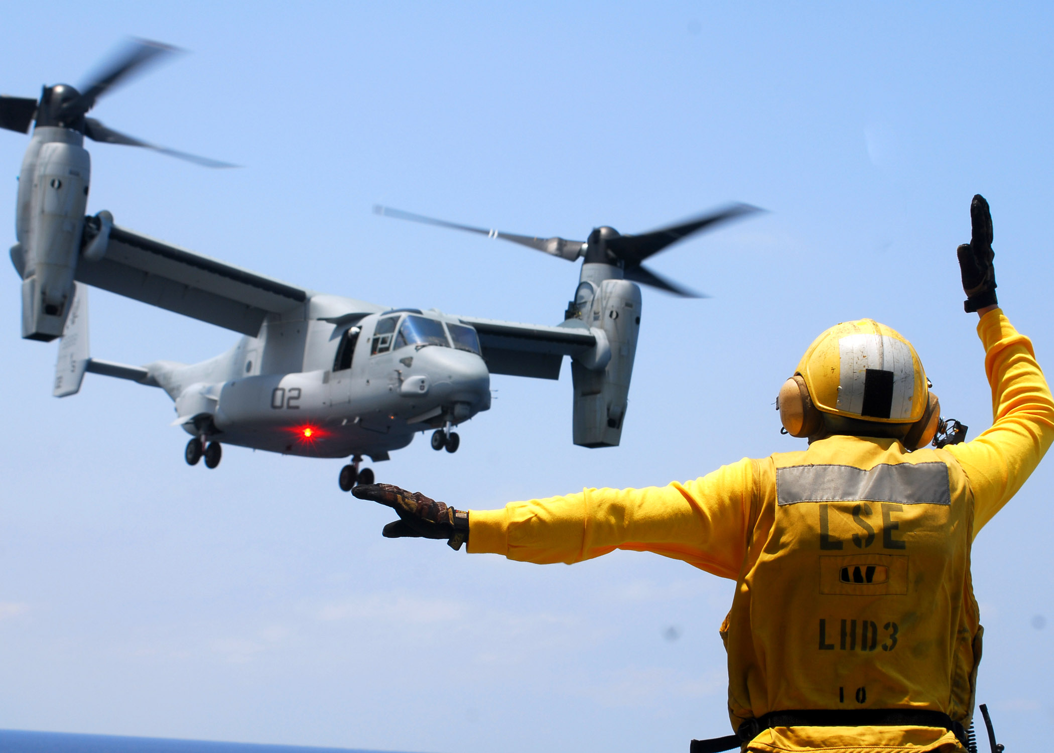 ATLANTIC OCEAN (May 22, 2007) - Aviation Boatswain's Mate Handling 2nd Class Juan Pena assigned to air department guides an MV-22 Osprey from Marine Medium Tiltrotor Squadron (VMM) 162 onto the flight deck of amphibious assault USS Kearsarge (LHD 3). Kearsarge is participating in Composite Unit Training exercise (COMPTUEX) in preparation for a scheduled deployment. U.S. Navy photo by Mass Communication Specialist 2nd Class Oscar Espinoza (RELEASED)